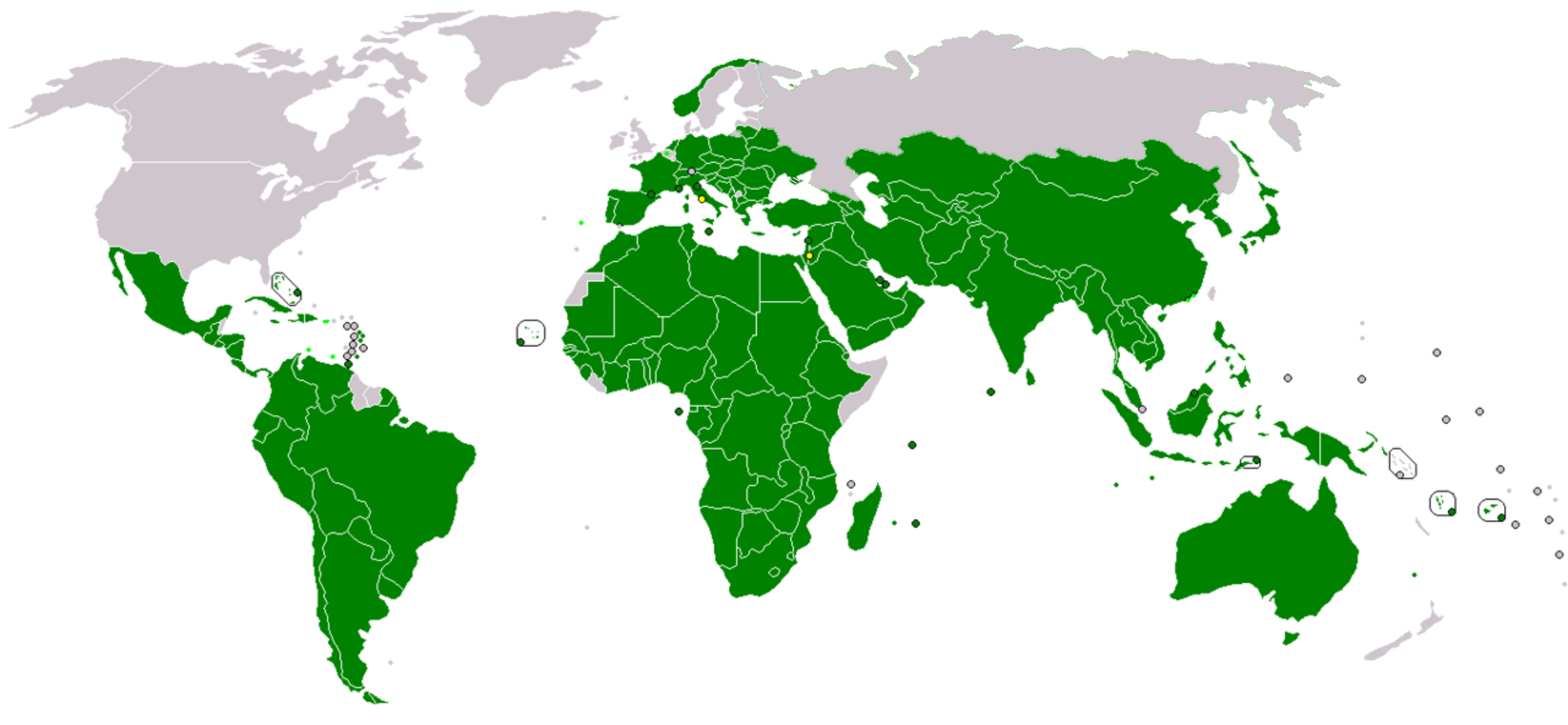 Dark green: members of the UNWTO